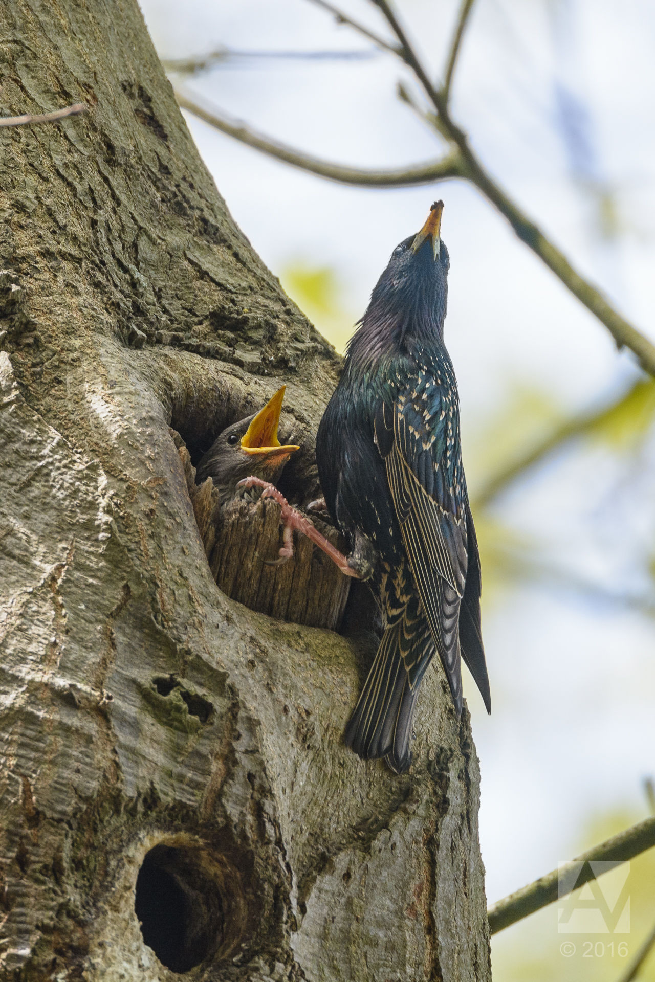 the young starlings are growing fast